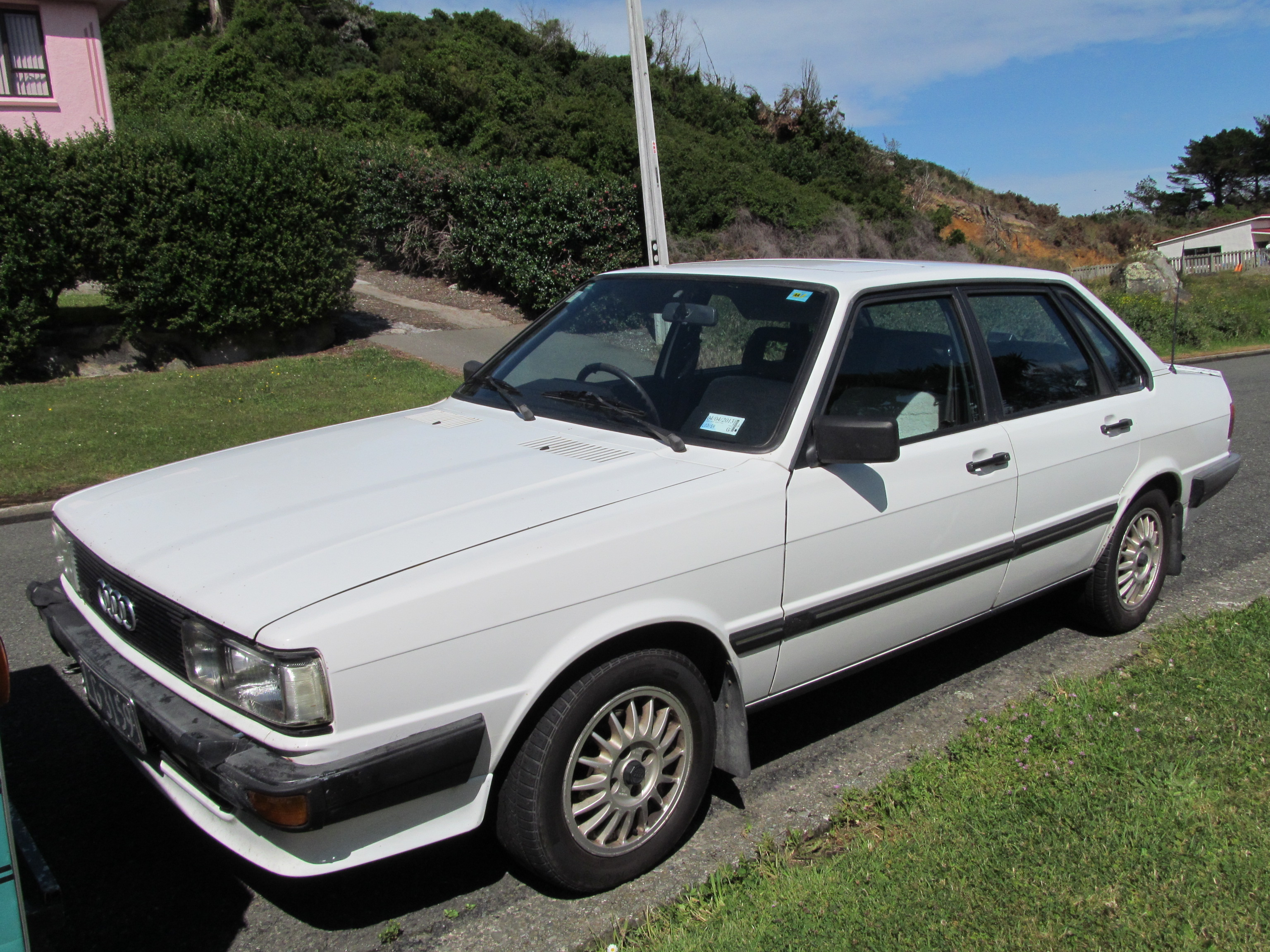 A surprising spot in Bluff, right at the bottom of the South Island! This 80 was holding up pretty well given its location, though it's missing the cheesy 80s Audi rings along the bottom of the doors.